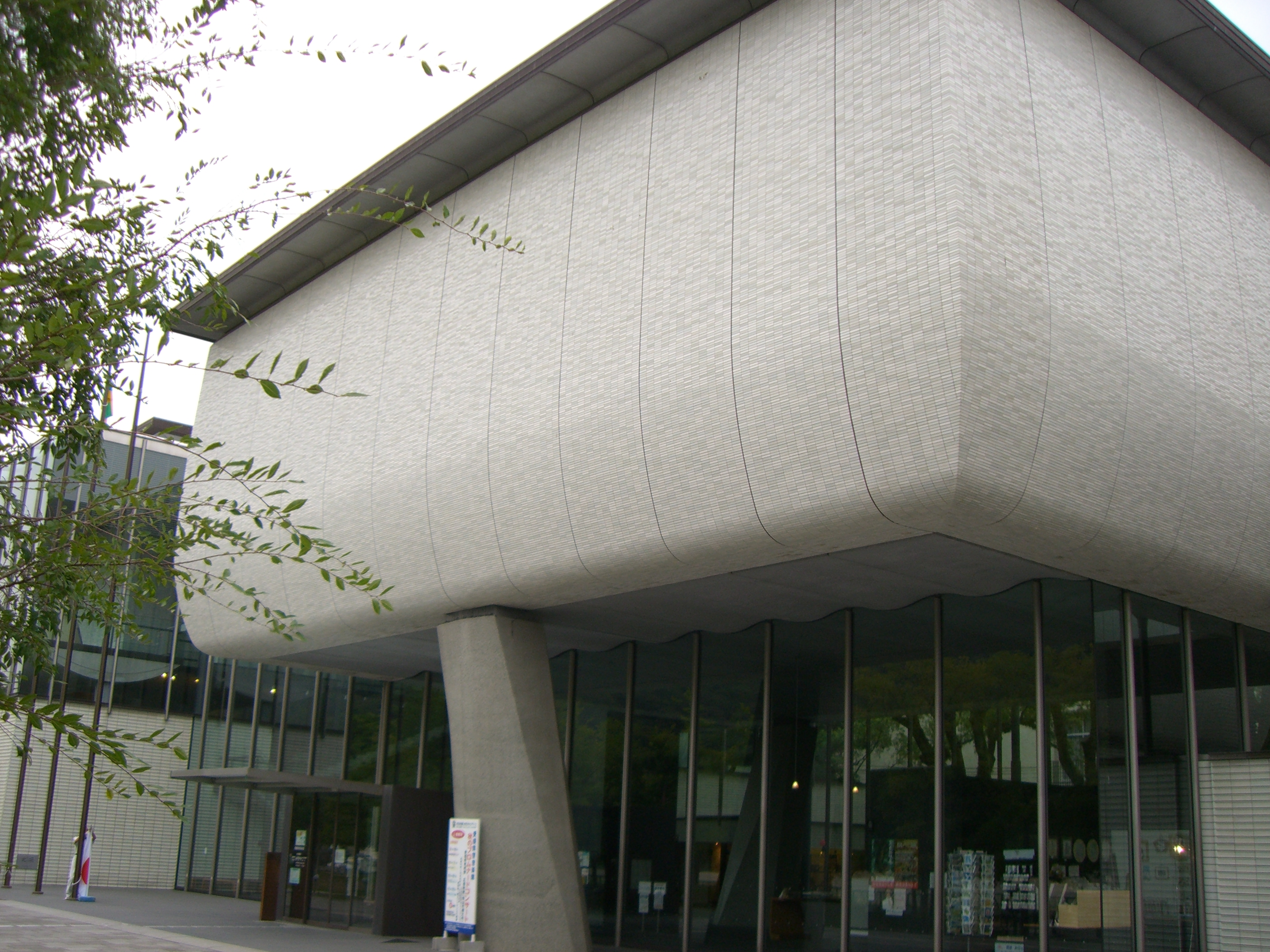 Prefectural Museum of Art (Ehime,JAPAN)